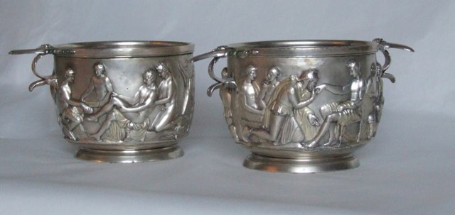 The Hoby beakers/chalices/cups of silver from the Roman Iron Age. Marked with the Roman name Silius and the name of the artist. Found in Hoby, Lolland, Denmark in 1920